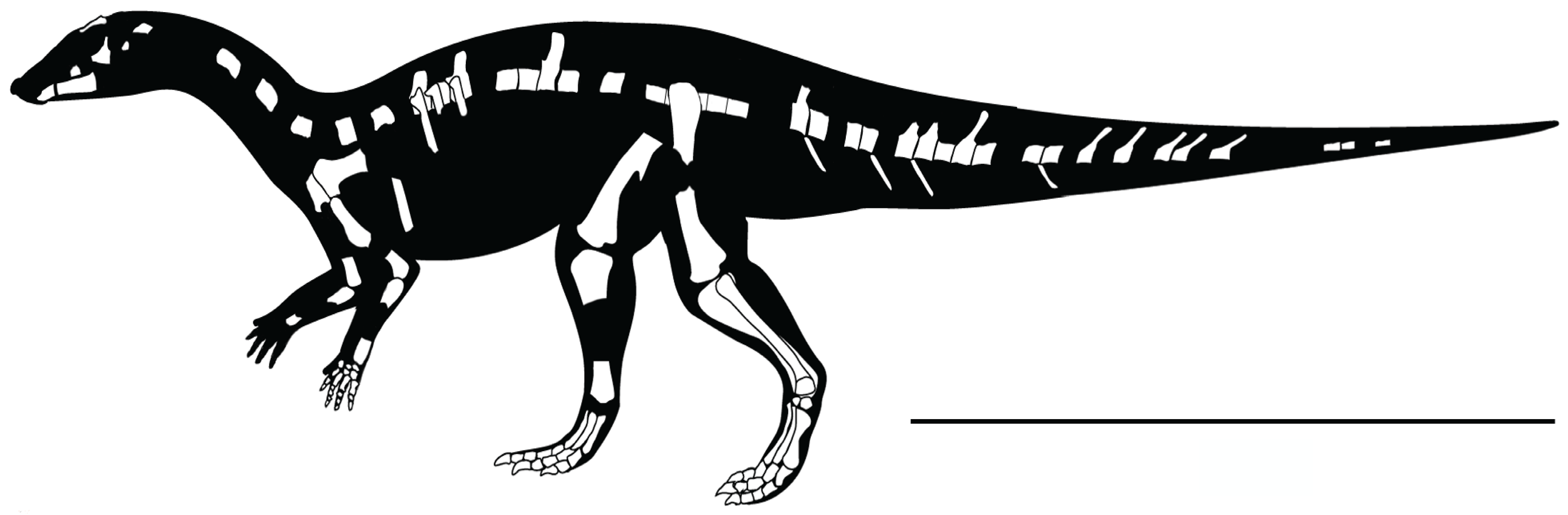 Skeletal reconstruction of the undescribed ‘hypsilophodontid’ from the Kaiparowits Formation with known material shown in white